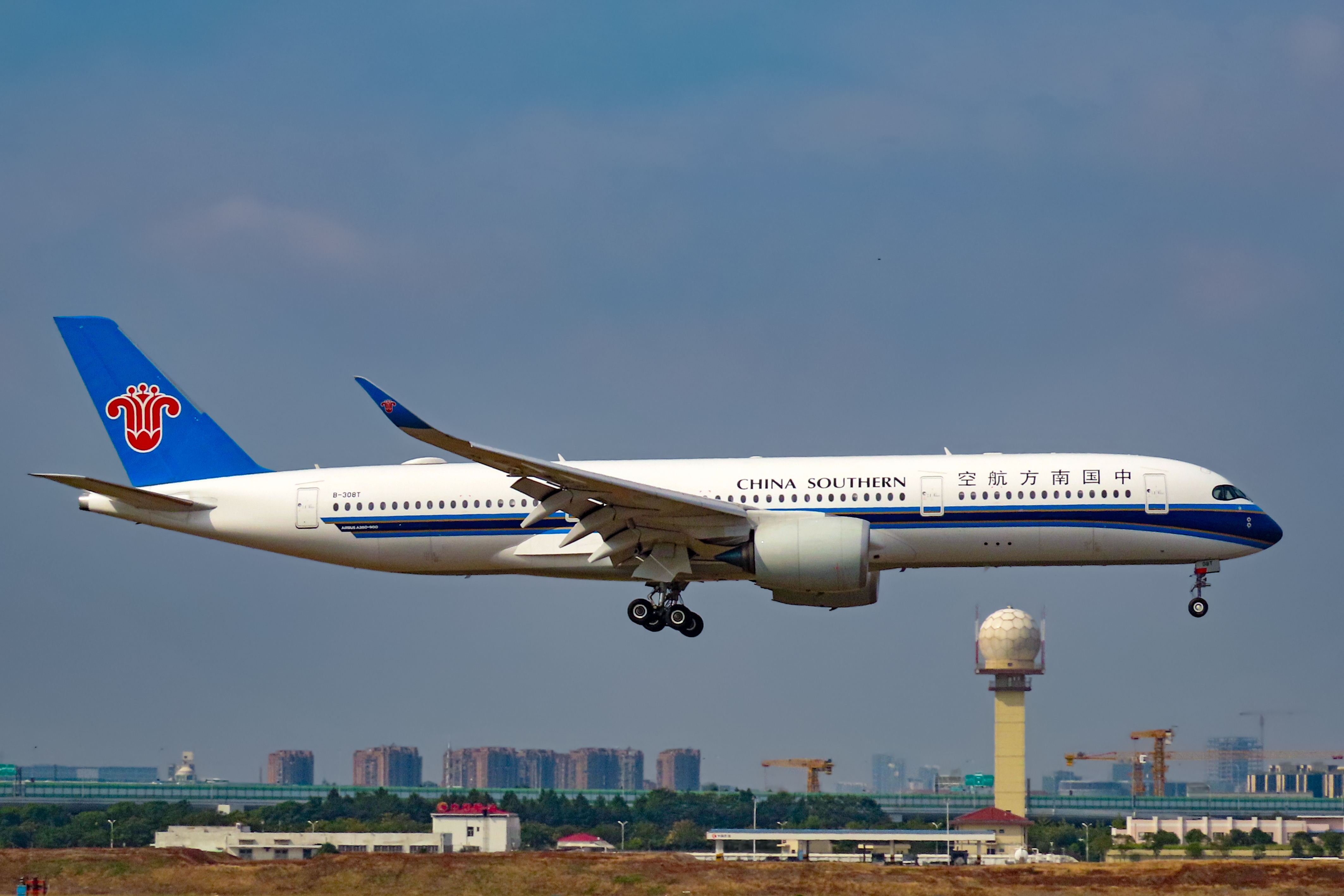 Nanfang 3523 from Guangzhou. B-309W flew CAN-HGH and CAN-CTU that day.